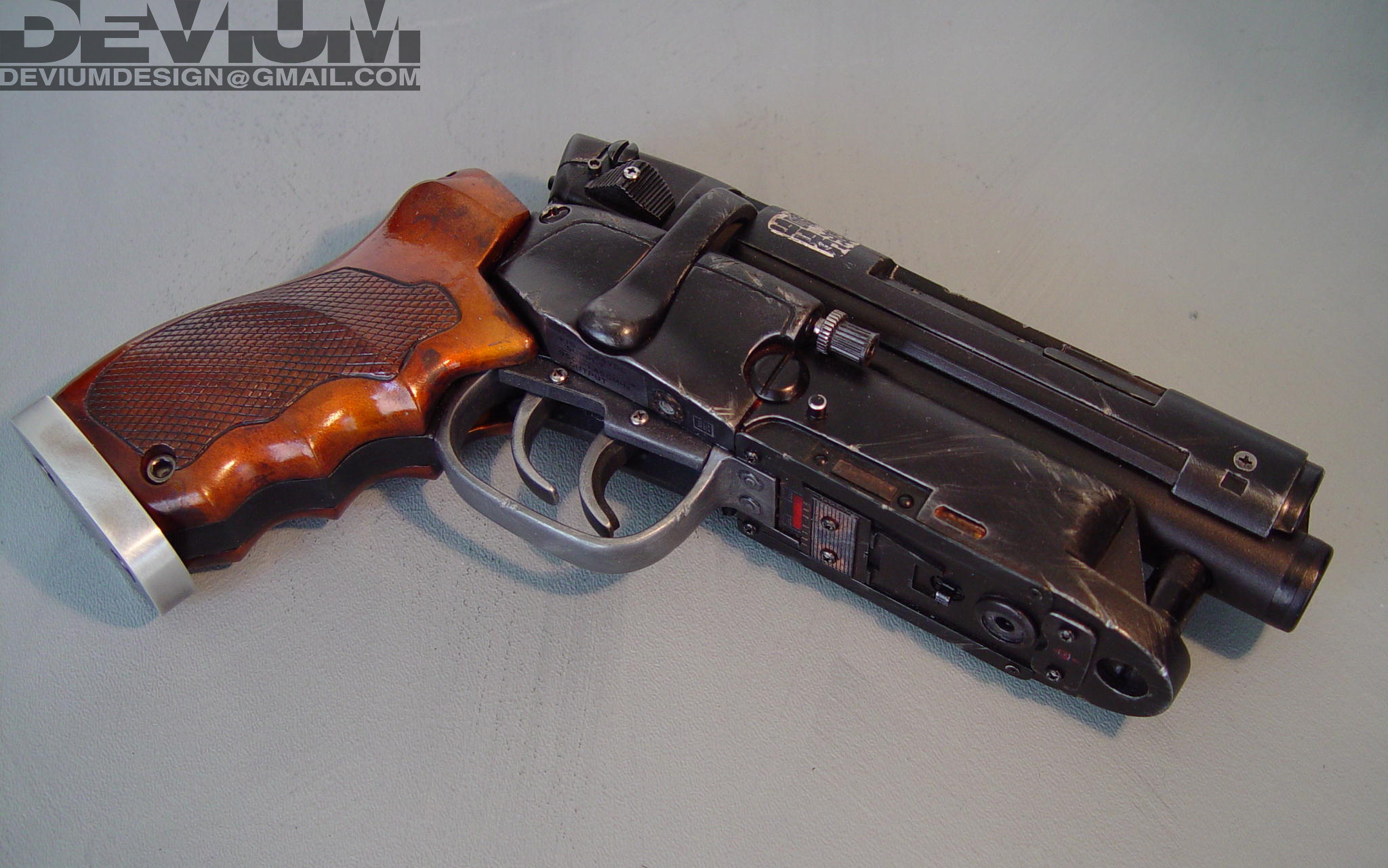 Built sometime in the late 1980's. Added the display and some modifications before being shown at Things from Another World when it first opened at Universal Citywalk.